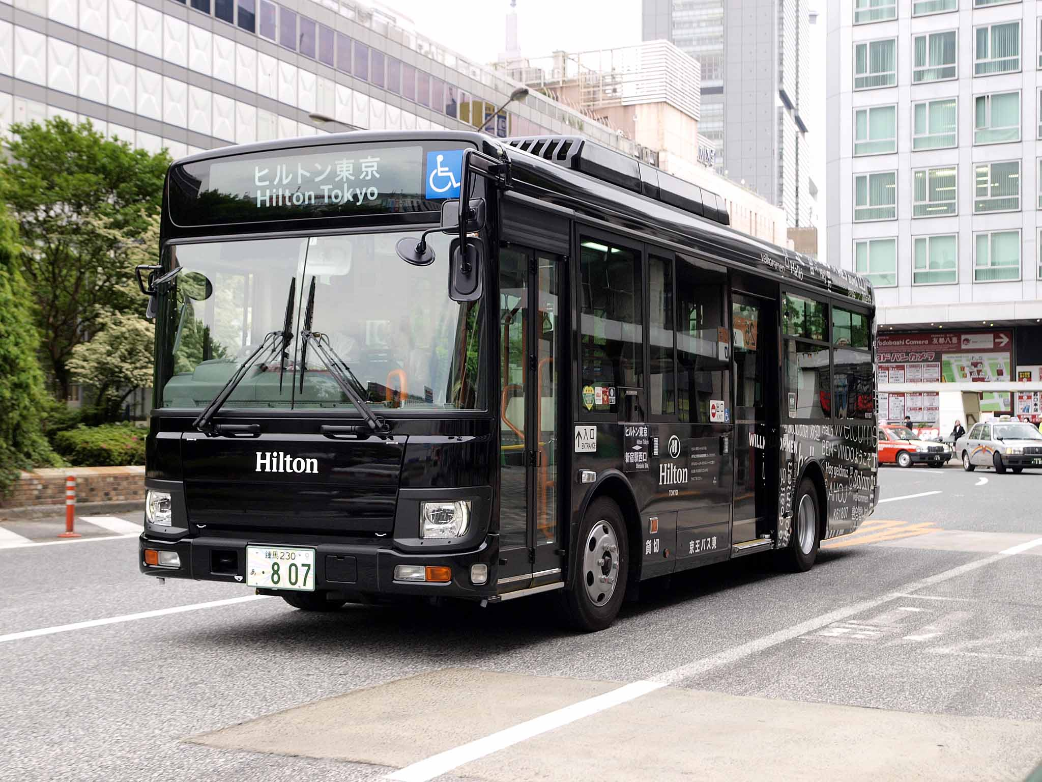 Fleet of Keio Bus Higashi, as shuttle bus of Hilton Tokyo from Shinjuku Station. Model: Hino Rainbow 2KG-KR290J3 License plate: TKN230 A0807 Place: Shinjuku Station, Shinjuku Ward, Tokyo Japan